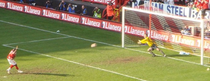 Darren Bent scoring a penalty kick for Charlton Athletic against Wigan Athletic at the Valley, London on 31 March 2007